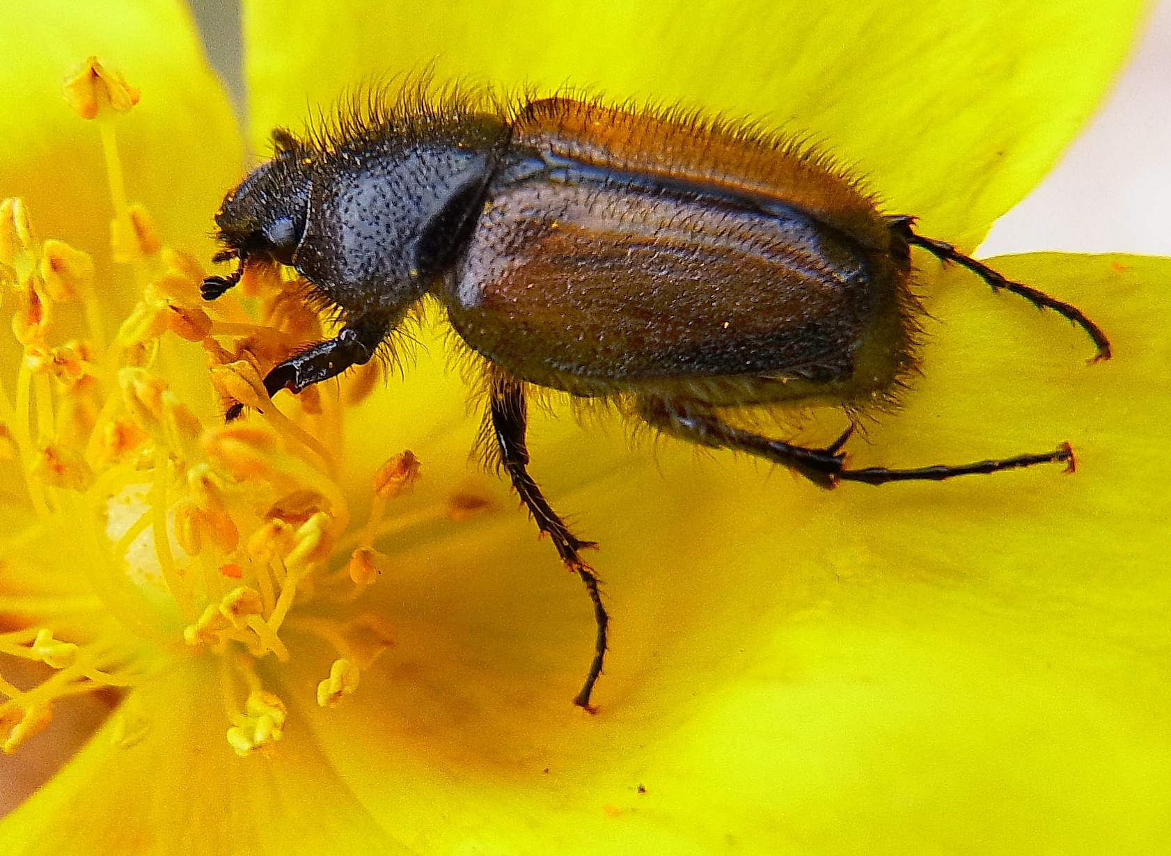 Chasmatopterus villosulus from Northern Spain over the small village Es 24433 Balouta, Léon, Cantabrique mountains at 2013-07-22